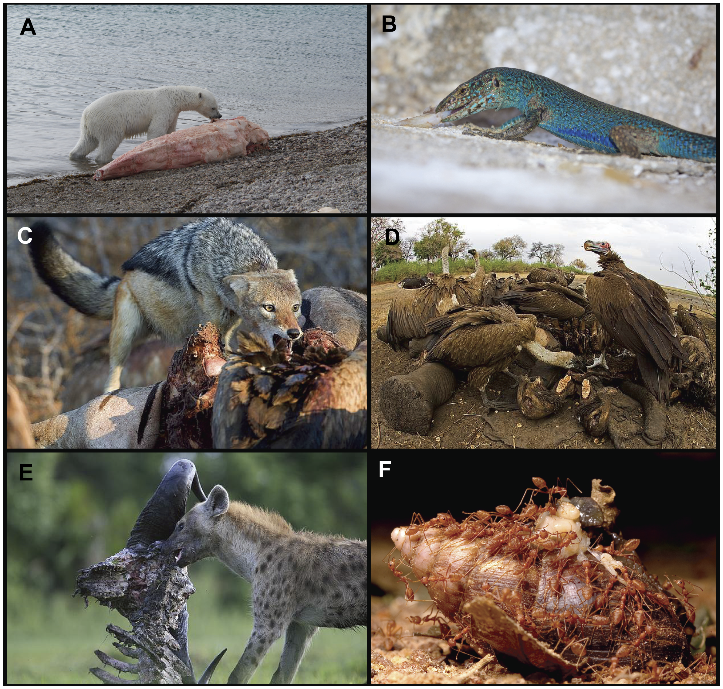 Scavenging occurs in virtually all food-webs and habitats. (A) a polar bear (Ursus maritimus) eating flesh from a narwhal whale carcass (Monodon monoceros) (Photo: Jeff W. Higdon/DFO); (B) an Ibiza wall lizard (Podarcis pityusensis) scavenging on fish scraps leftover from another predator (Photo: Nate Dappen/Day’s Edge Productions); (C) a black backed jackal (Canis mesomelas) scavenges on a zebra (Equus quagga) kill (Photo: Chris Fallows); (D) lappet faced vulture (Torgos tracheliotos) and white backed vultures (Gyps africanus) scavenge on an elephant kill (Photo: Chris Fallows); (E) A spotted hyena (Crocuta crocuta) removes flesh from a long-dead ungulate (Photo: Chris Fallows); (F) red weaver ants (Oecophylla smaragdina) gathering to feed on a dead African giant snail (Achatina fulica) (Photo:Narasha Mharte).